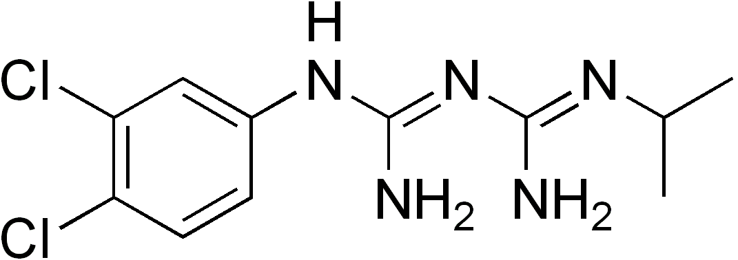 chemical structure of chlorproguanil